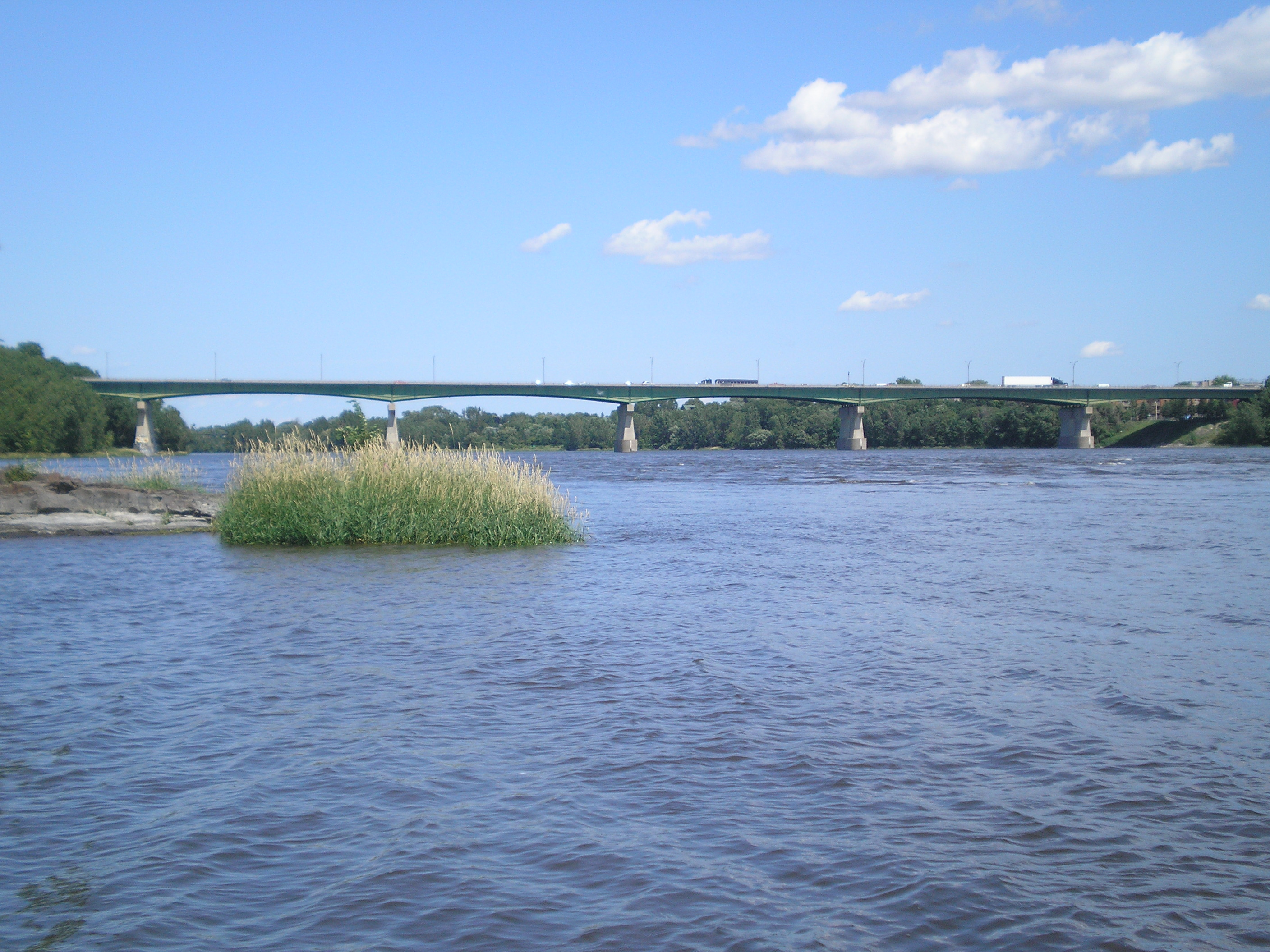 The Pie IX Bridge is currently the second easternmost bridge to connect Laval and Montreal.